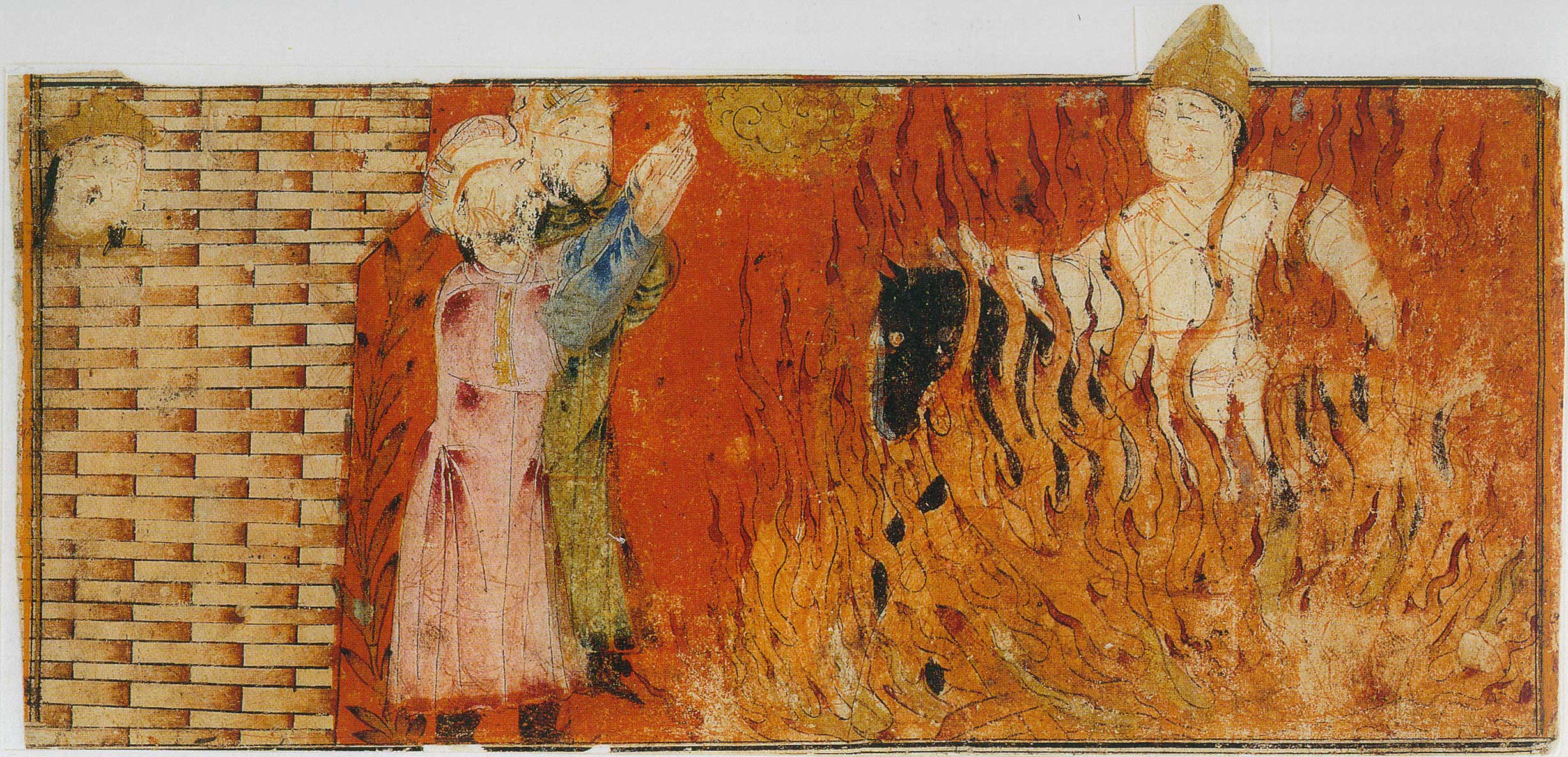 Siwayu proves his innocence by riding through fire. Illustration of the Shahname. Isfahan (?), 1st quarter of 14th century. Water colours and gold on paper. Original size: 8.5 cm x 19 cm. Staatsbibliothek Berlin, Orientabteilung, Diez A fol. 71, p. 30 no. 2.